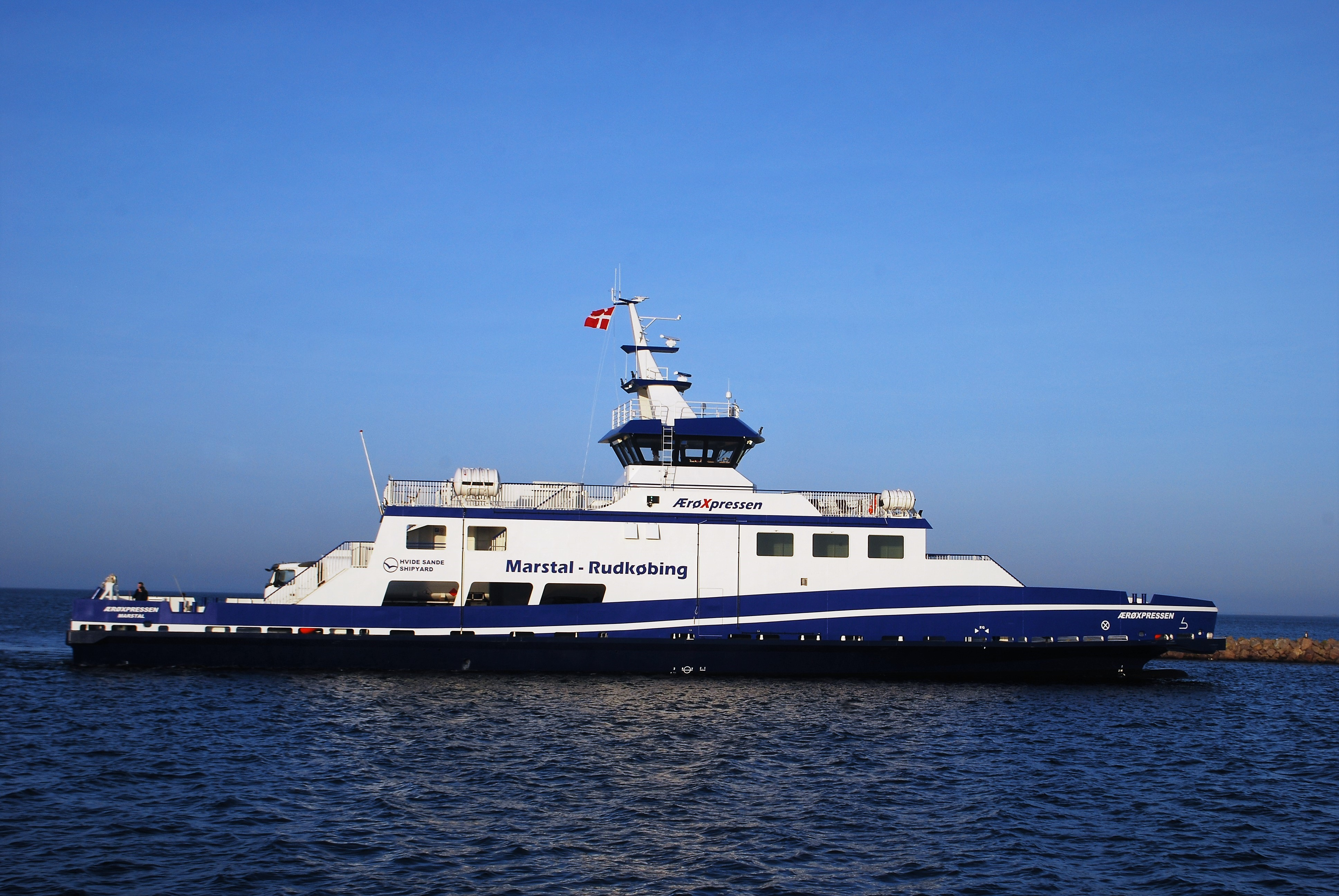 MF Ærøexpressen, Marstal, Denmark